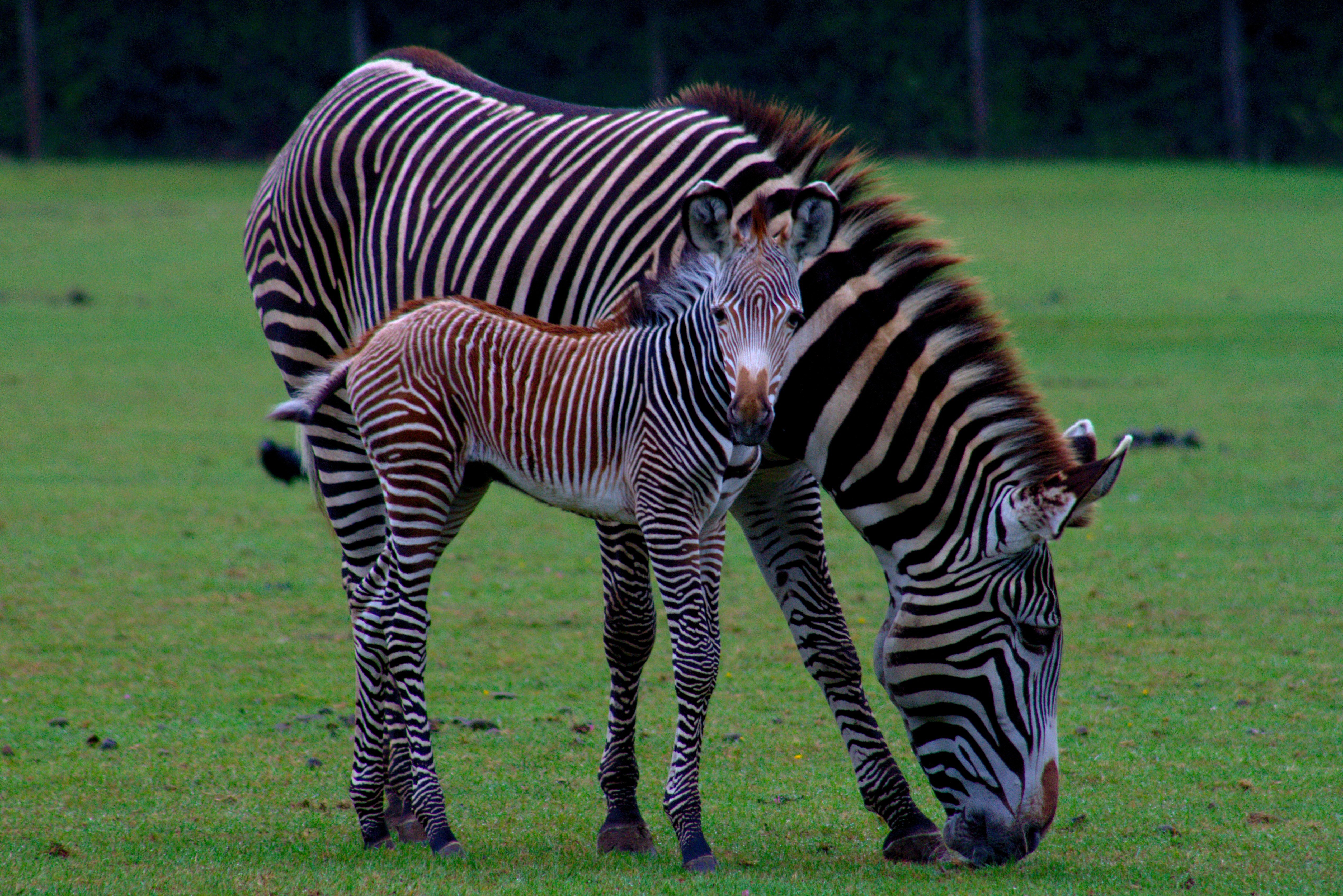 Grevy's Zebras at Marwell Wildlife, Hampshire, England